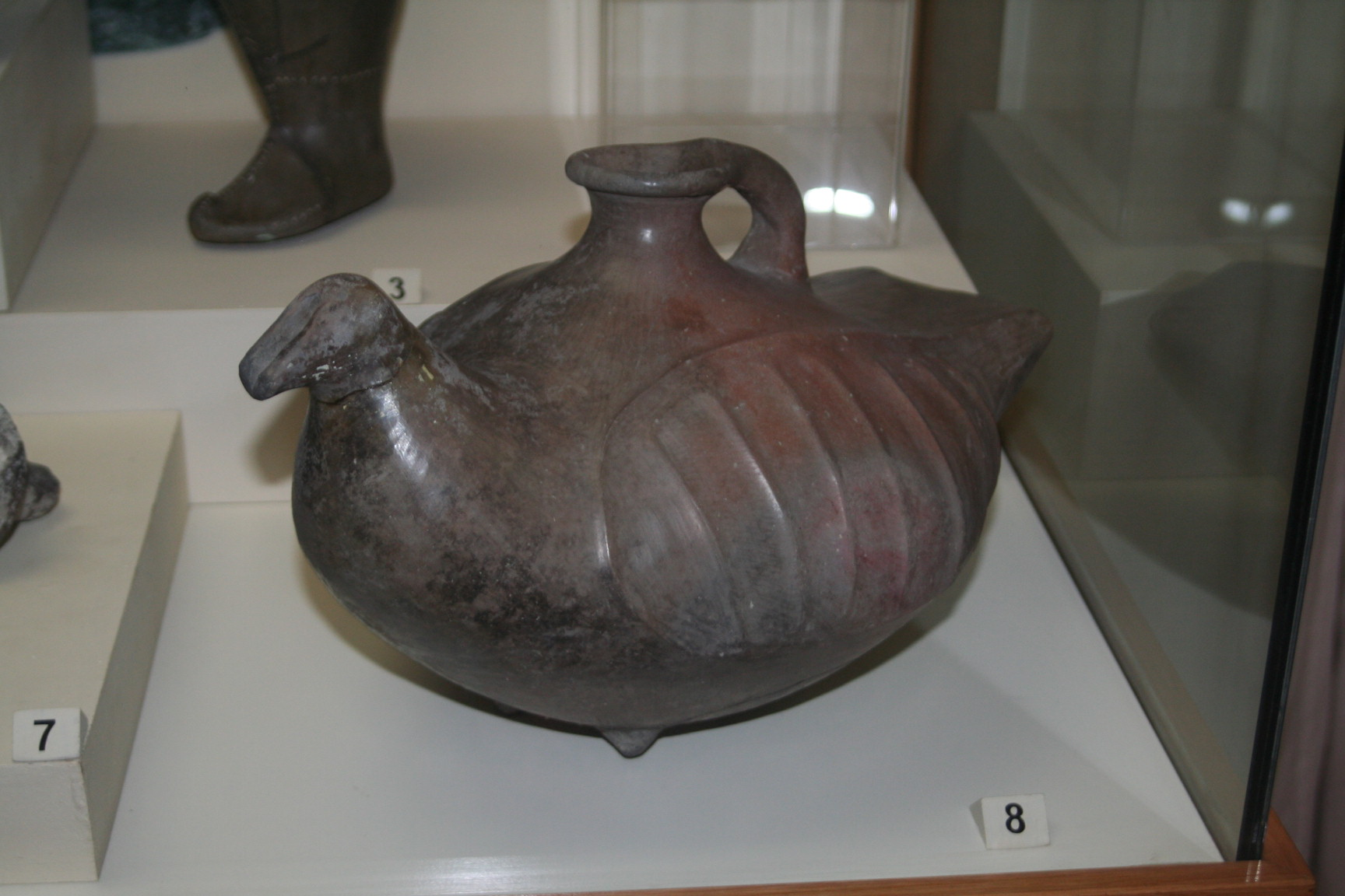 Zoomorphic crockery from Mingachevir. 13th-8th cc. B.C.